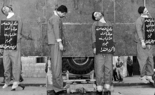 Suspects in Hazza' Al-Majali's assassination hanged, 31 December 1960